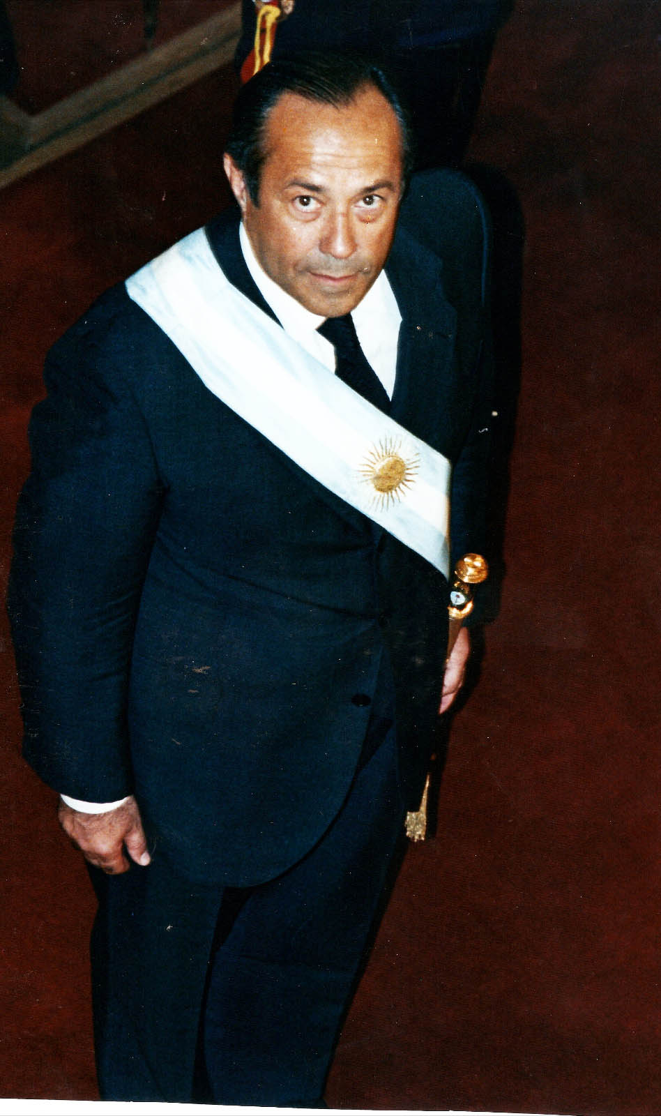 presidente Adolfo Rodríguez Saá (2001-2001); unfortunately a bigger version was not available on the Presidency website